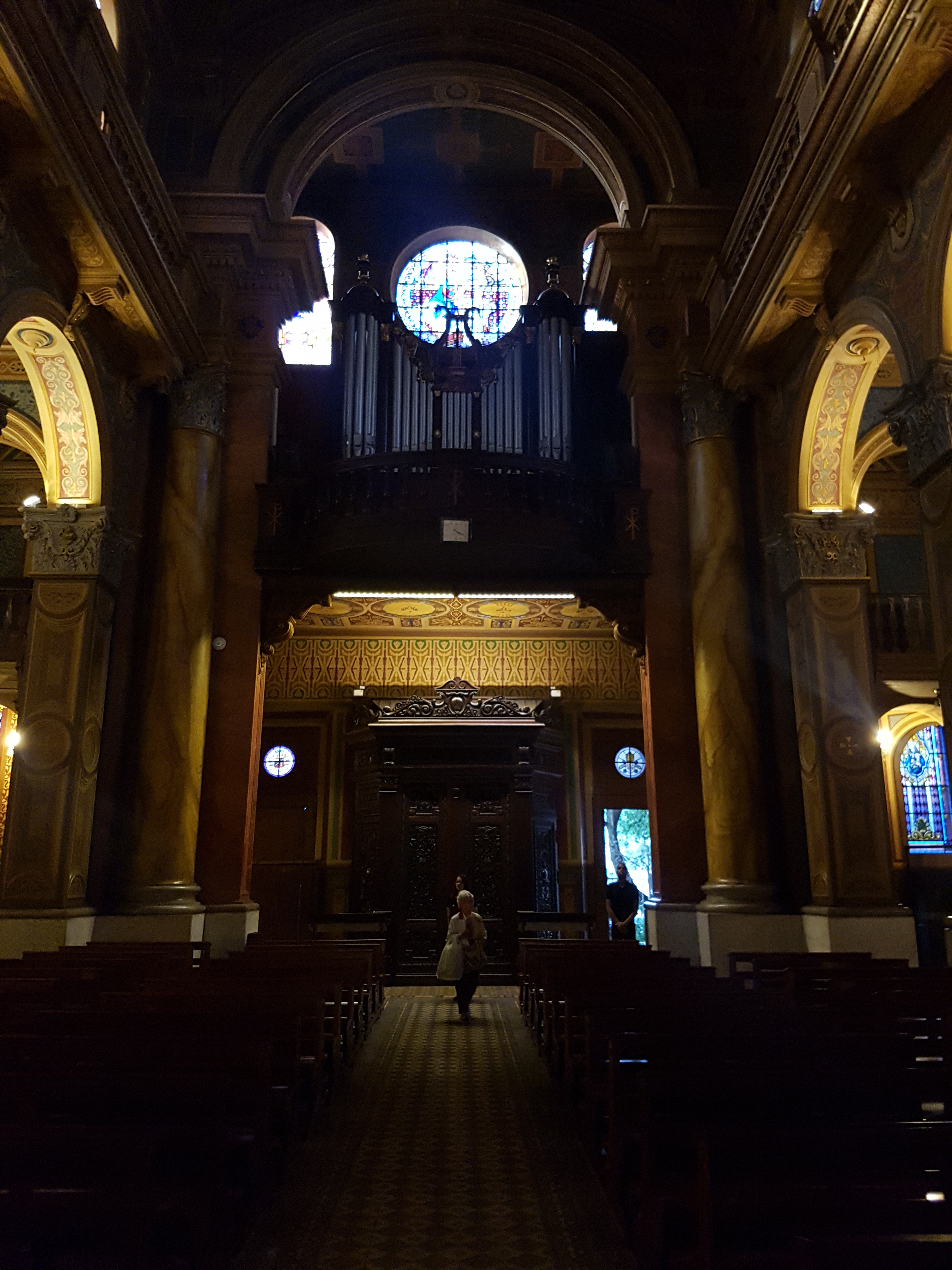 Visão da saída da Paróquia.